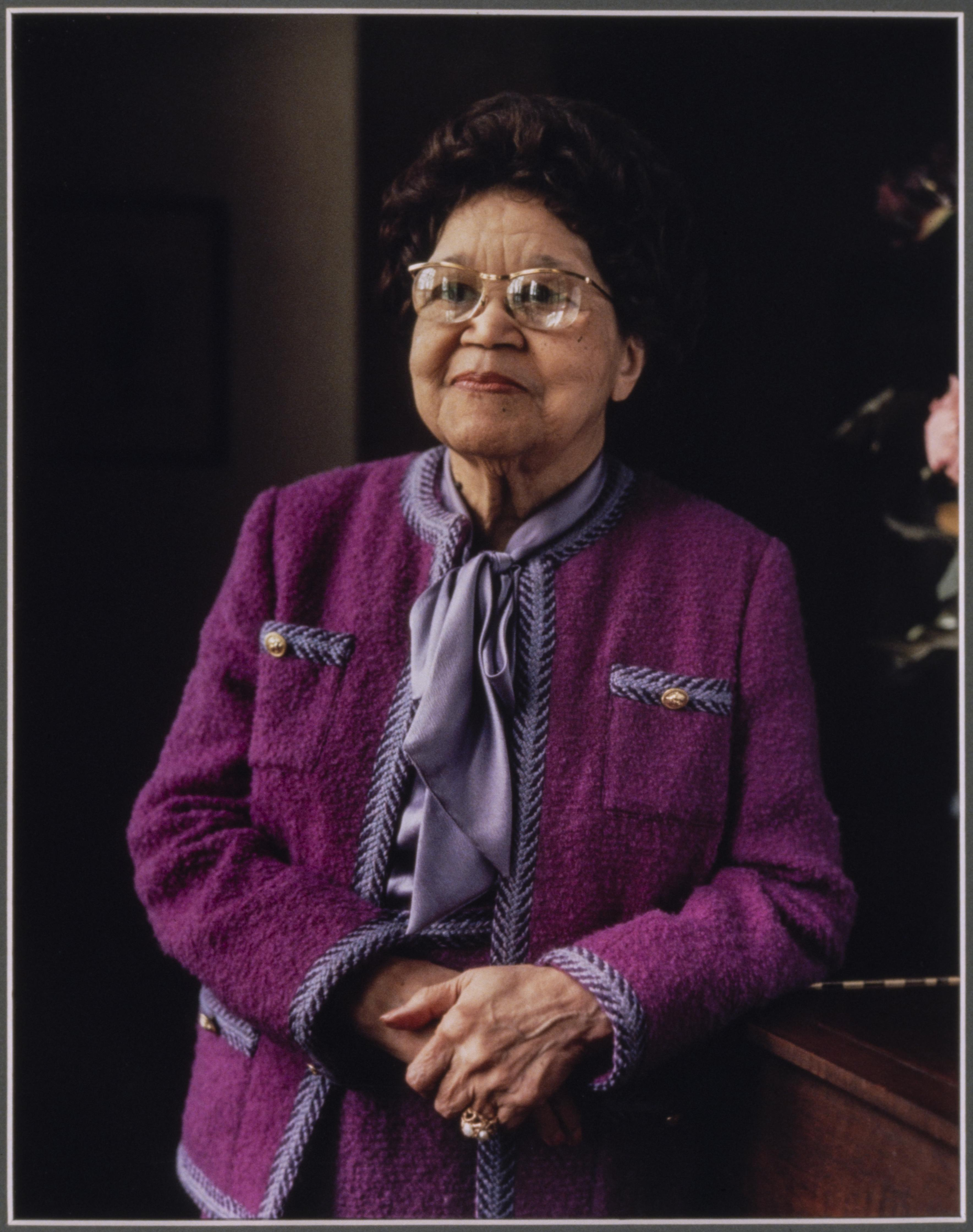 Biography: In 1921 Sadie Alexander was one of the first three Black women in the United states to be awarded a doctorate; she was also the first Black woman to earn a law degree from the University of Pennsylvania and the first to practice law in the Commonwealth of Pennsylvania. Her father, Aaron Mossell, had been the first Black graduate of the University of Pennsylvania Law School, and her mother, Mary Tanner Mossell, was the fourth generation of the Tanner family recorded as "free negroes" in the U.S. Census. After earning B.S., M.A., Ph.D., and LL.B. degrees from the University of Pennsylvania, she engaged in private practice with the Philadelphia firm of her husband, Raymond Pace Alexander, until his death in 1974. Subsequently joining another firm, Dr. Alexander worked as an attorney in Philadelphia for more than 50 years. She participated in numerous civic organizations, including the National Urban League and Delta Sigma Theta, which she served as first national president. Description: The Black Women Oral History Project interviewed 72 African American women between 1976 and 1981. With support from the Schlesinger Library, the project recorded a cross section of women who had made significant contributions to American society during the first half of the 20th century. Photograph taken by Judith Sedwick Repository: Schlesinger Library on the History of Women in America. Collection: Black Women Oral History Project Research Guide: Questions?